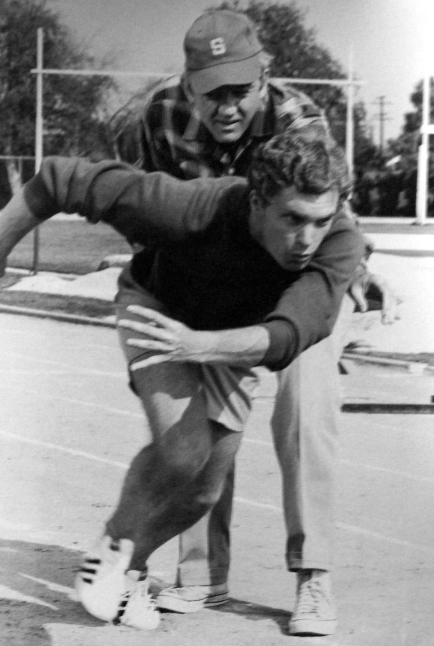 Photo of Gary Frank as Jeff Reed and James Callahan as his high school coach from the television program Sons and Daughters.